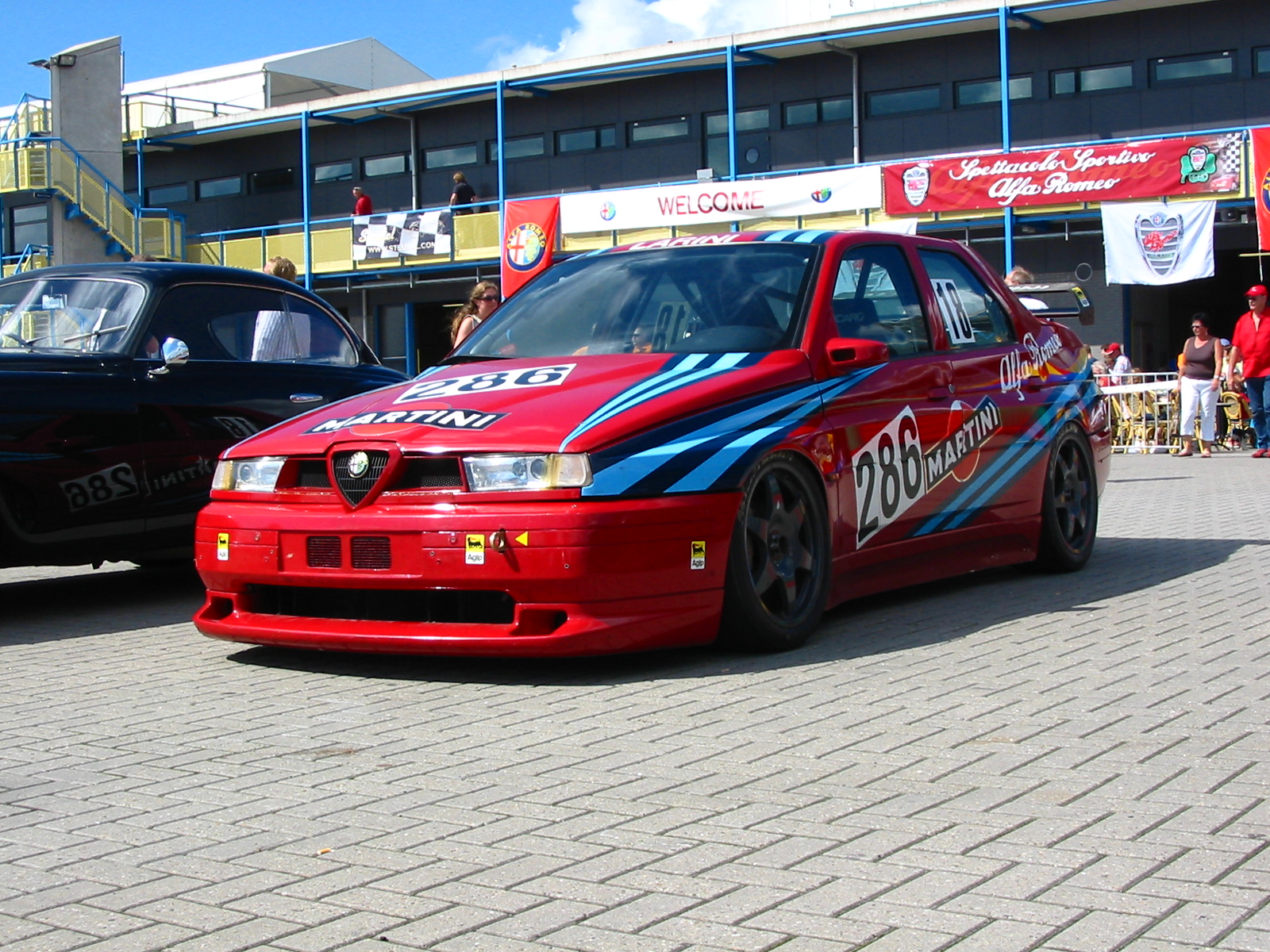 Alfa Romeo 155 GTA